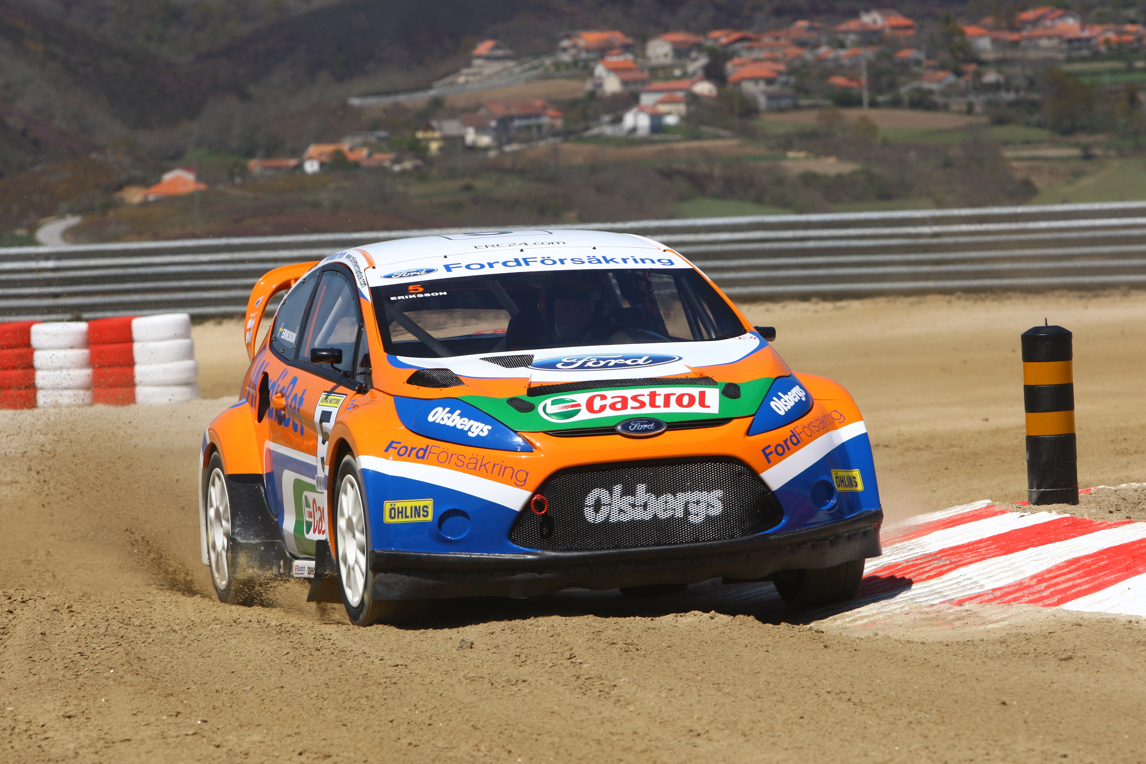 Swedish rallycross driver and team principal of Olsbergs MSE, Andréas Eriksson, with his new Ford Fiesta Division 1 rallycross car.